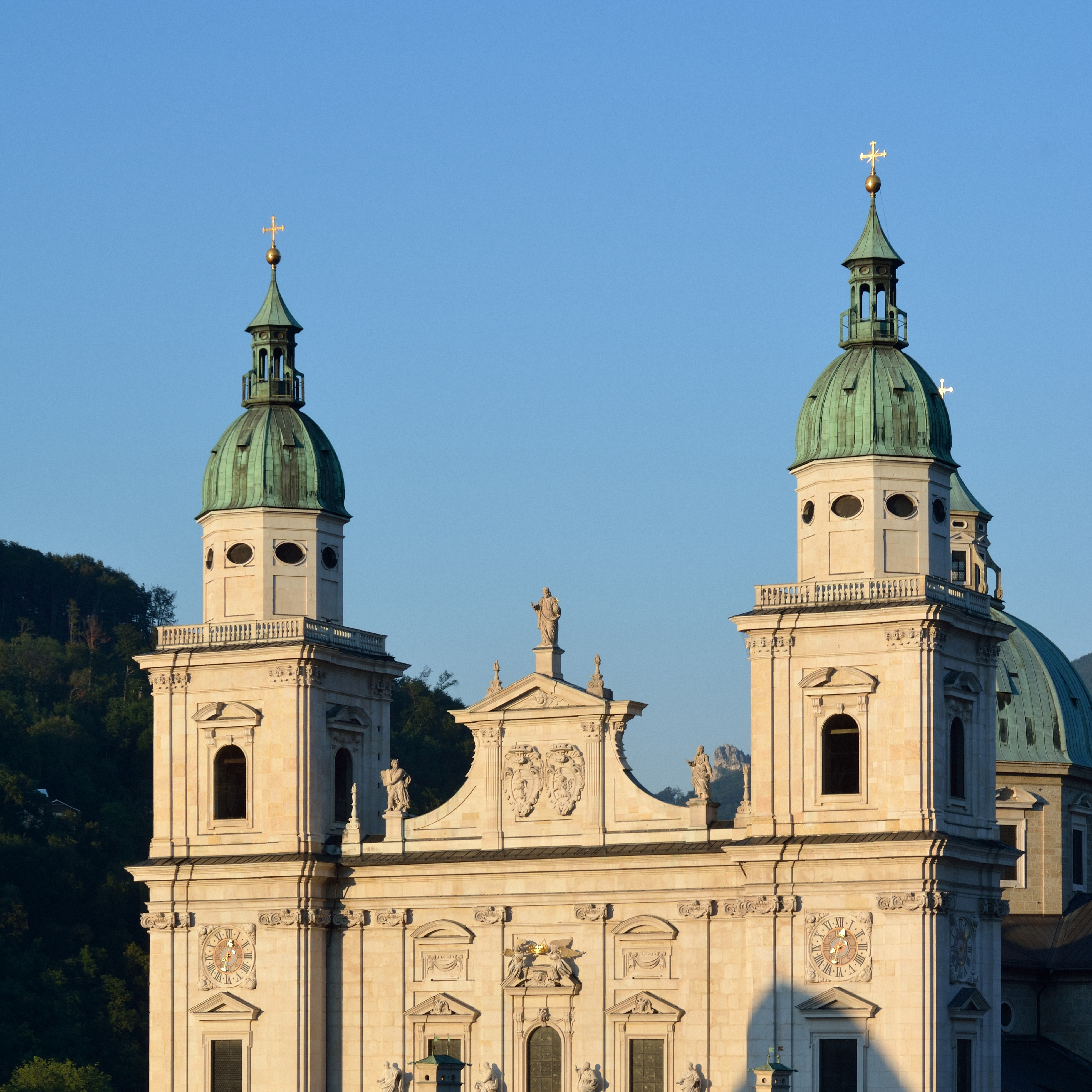 Salzburg Cathedral, Domplatz 1a, Salzburg, Austria